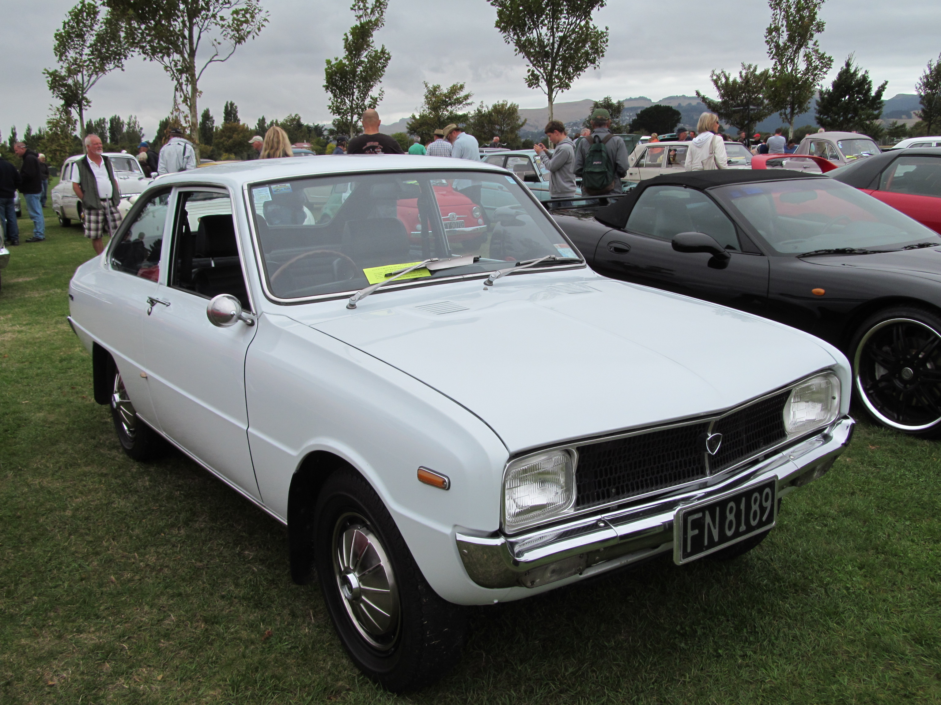 This left me speechless; I've never seen another R100. In beyond immaculate condition.